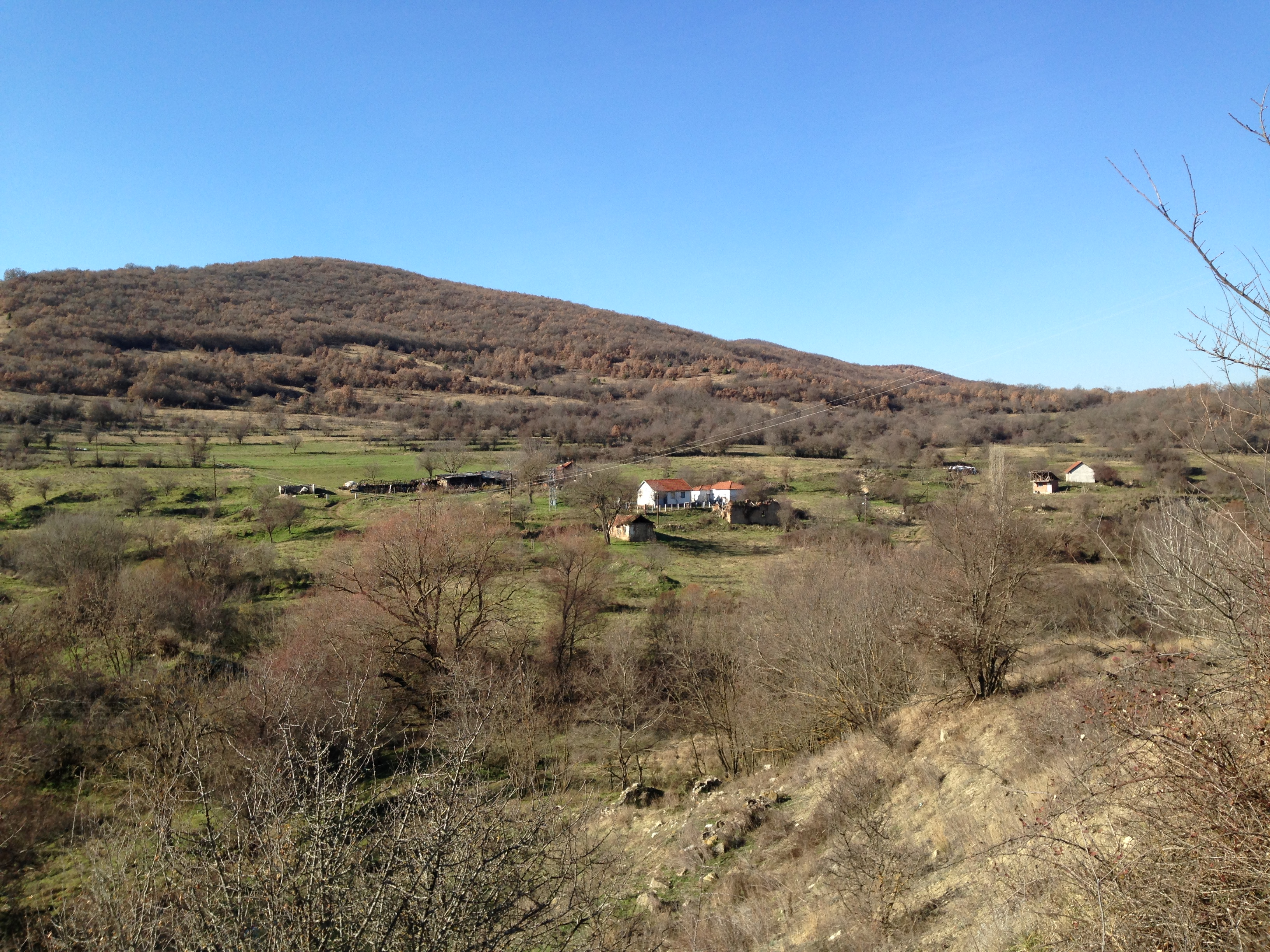 village of Krušje, near Veles, Macedonia